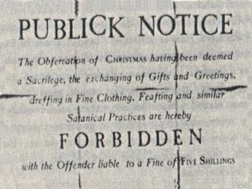 Public notice from 1659 in Boston regarding the banning the celebrations of Christmas.